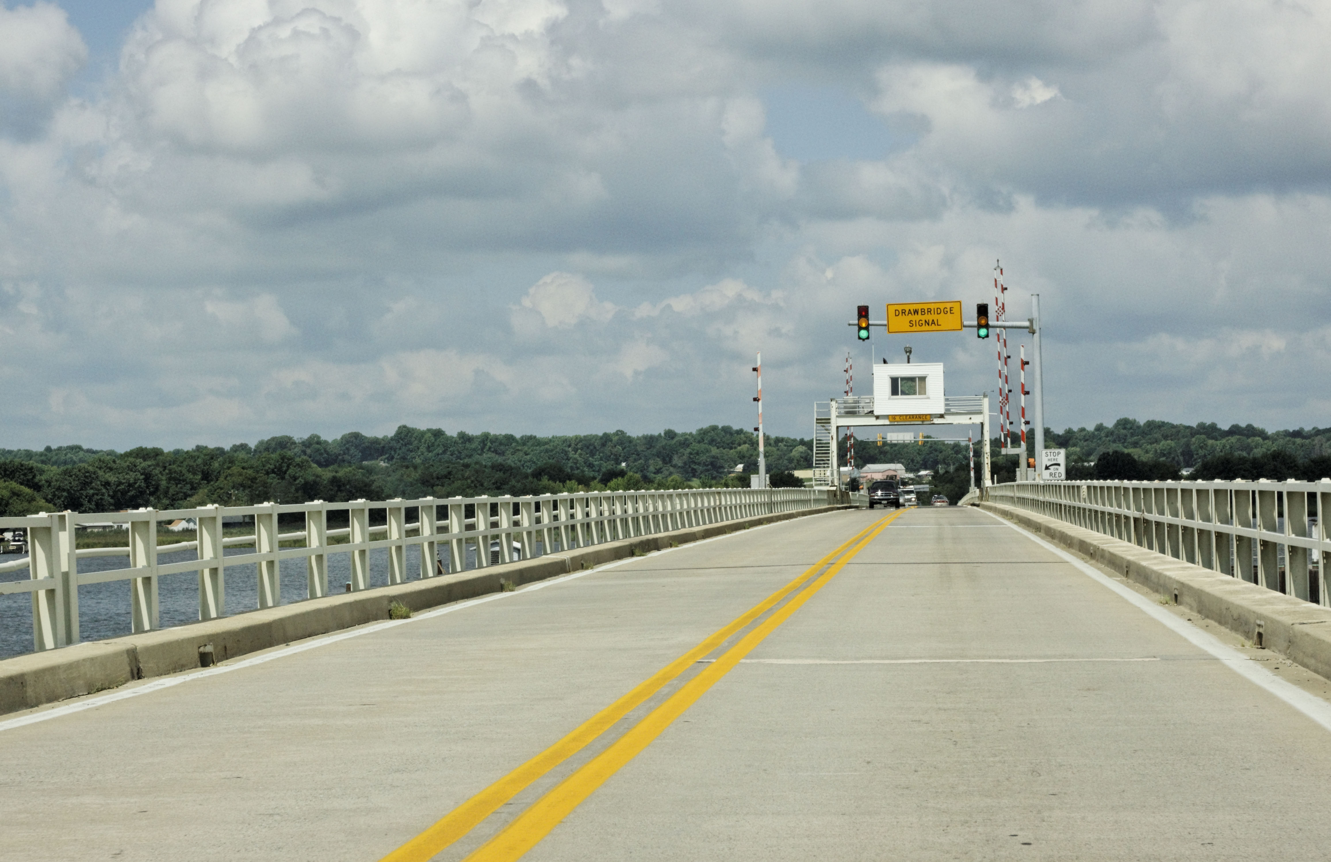 Shot of Maryland Route 231 (Hallowing Point Rd), heading westbound in Calvert County in Southern Maryland. This is on the bridge prior to the drawspan leading into Charles County. Officially, the bridge has no name, however, it is referred to locally as the "Benedict Bridge".